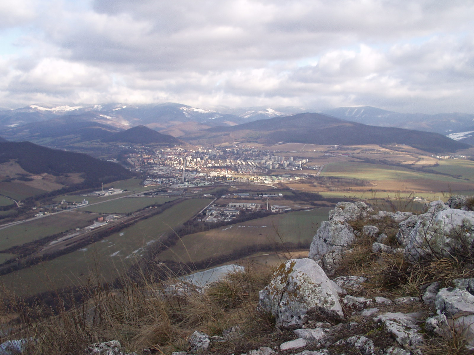 Brzotinske rocks (Slovak Karst)